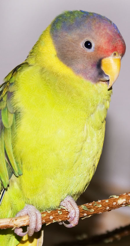 Juvenile Plum-headed Parakeet (Psittacula cyanocephala)